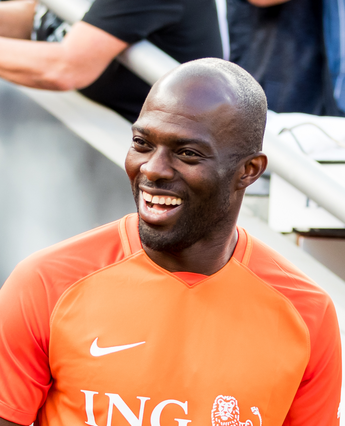 Hans Sarpei during Champions for Charity at BayArena, Leverkusen, Nordrhein-Westfalen, Germany on 2019-07-21, Photo: Sven Mandel